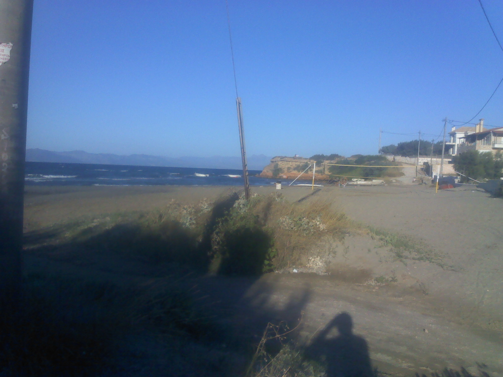 Seaside Filippa Artemida